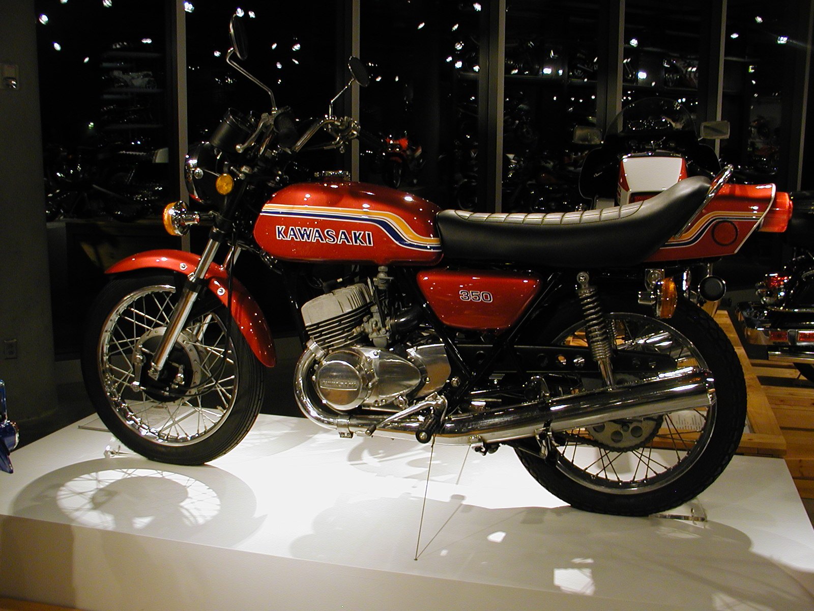 Barber Motorcycle Museum - Oct 22 2006 (112) Kawasaki 350SS red